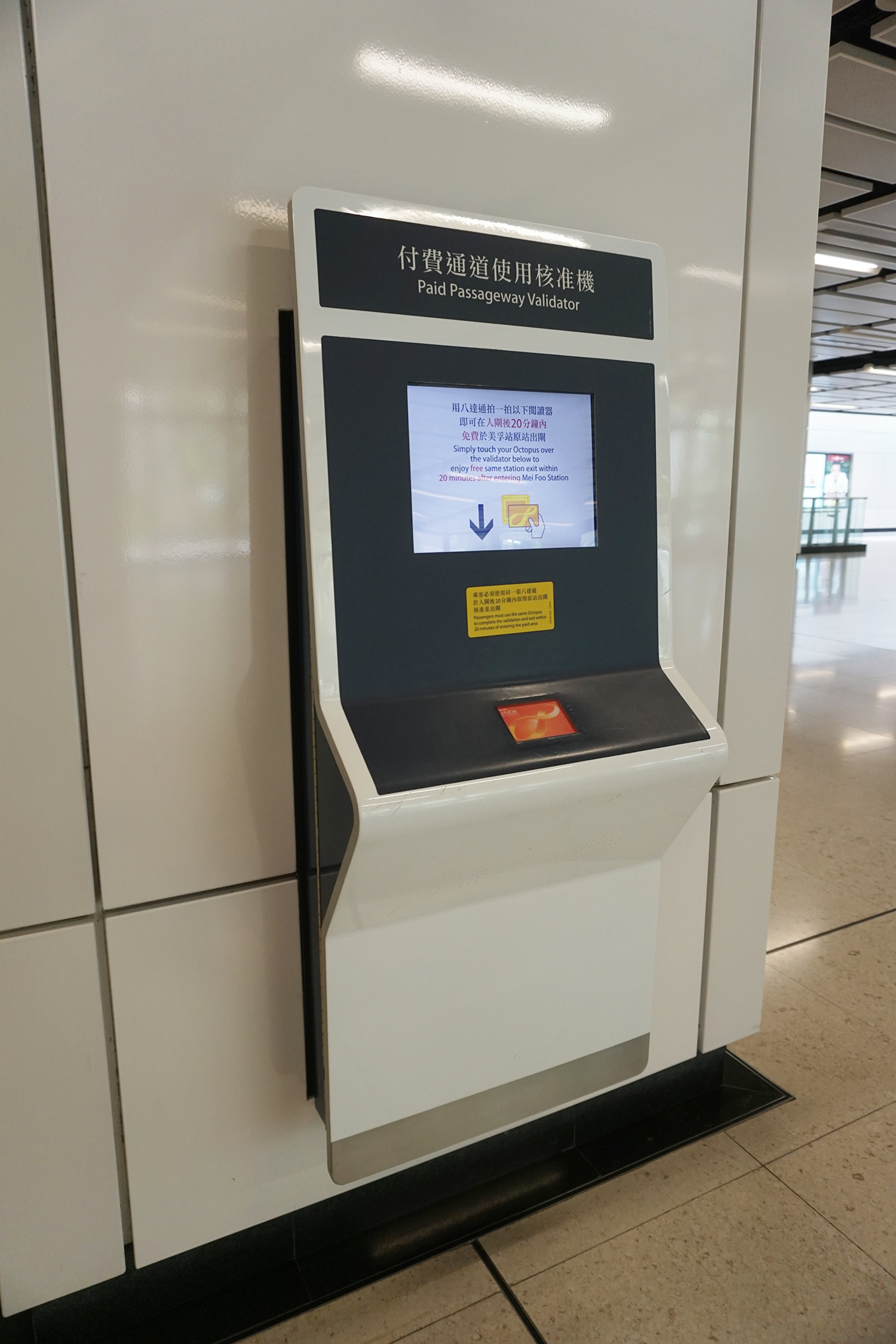 Mei Foo Station in Mei Foo, Hong Kong.